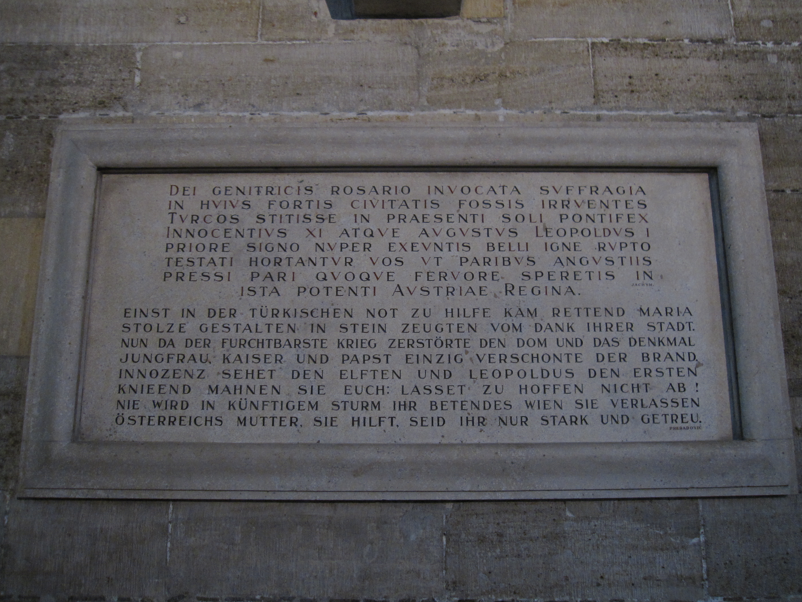 St. Stephen's Cathedral, Vienna